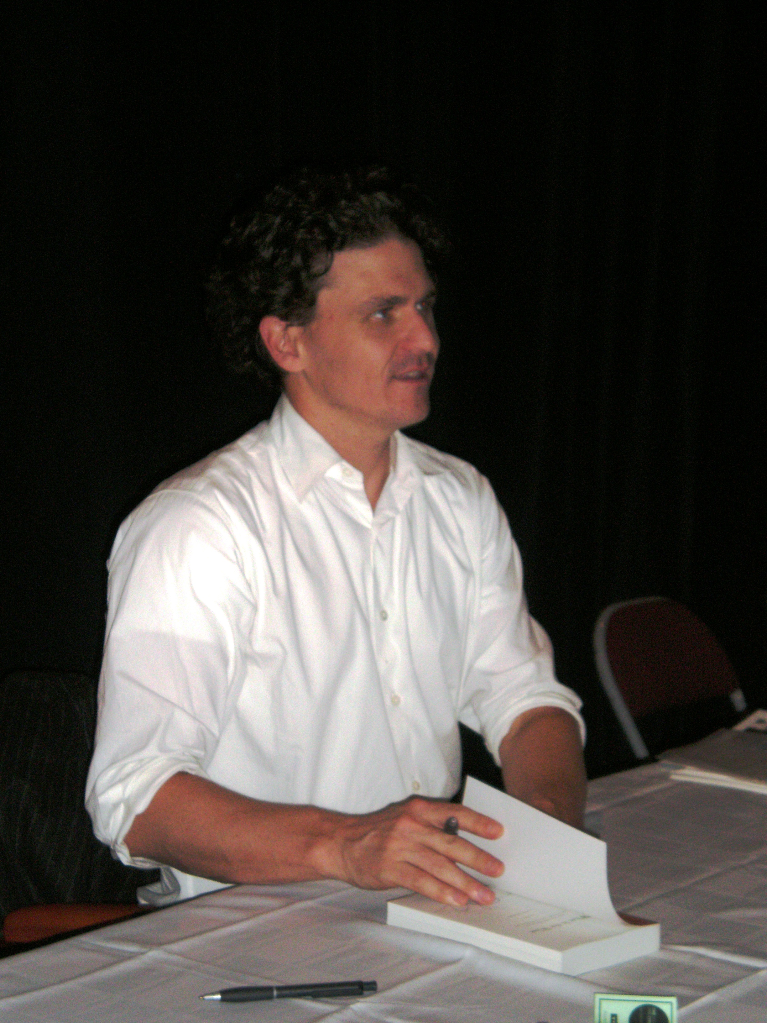 Author Dave Eggers at signing books after a discussion on his novel What is the What in San Mateo, California.